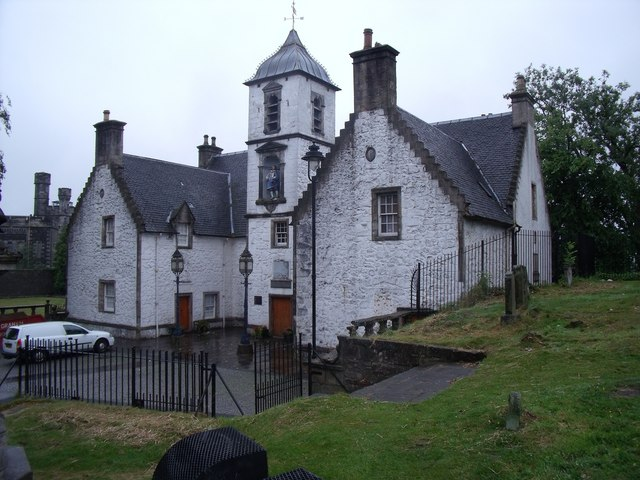 John Cowanes Hospital